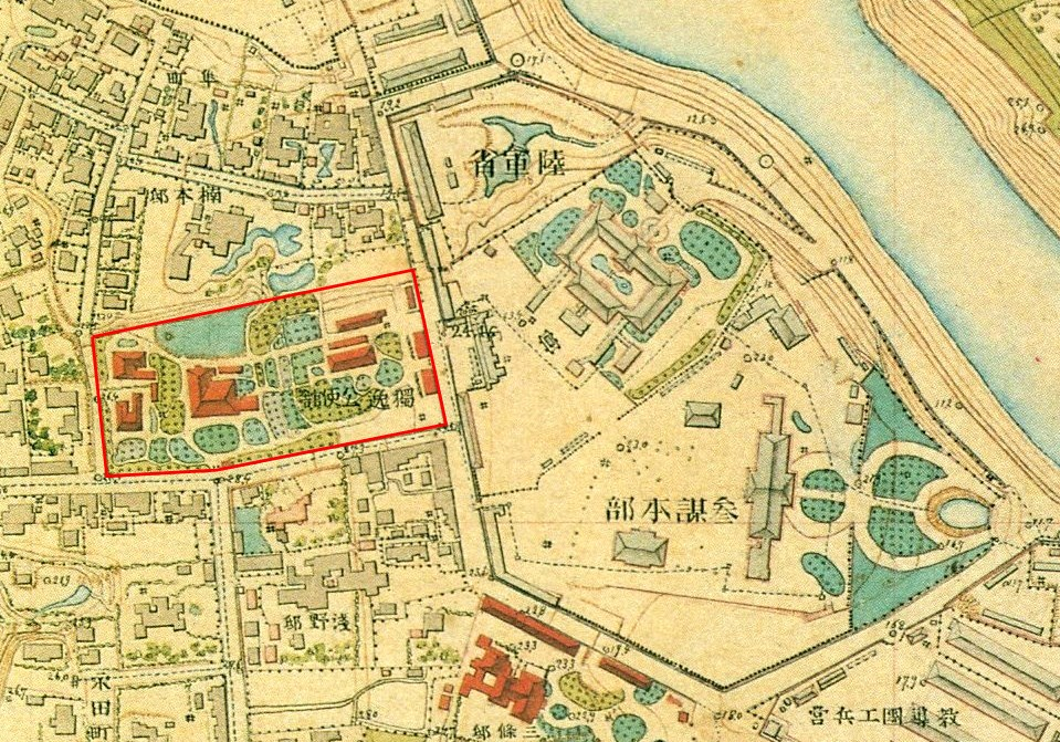 German Embassy Tokyo 1872-1945